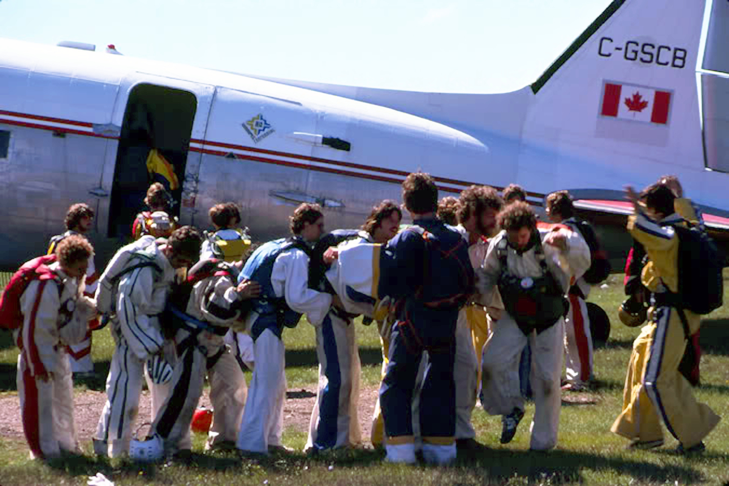 DC-3 loading; plus 'dirt diving' in the foreground - practicing exiting the aircraft on the ground, with 2 people 'playing the door', then sky divers run into the formation they'll attempt in the air, with the first two - 'base' and 'pin' connecting up and others 'fly' (run) into the growing formation. It doesn't always follow that the formation will actually get built in the air, but practice always helps. This C-47B (DC-3 - C-GSCB) was at the Goderich Airport in W:Ontario, W:Canada in 1977. These two planes, along with a Lockheed Lodestar, were supporting the Skydiving Jamboree as part of Goderich's Jubilee 3 celebrations. More info in the Goderich Airport article. Status of plane as of June 2020: C-GSCB, first flown in 1944, was in service until January 2020, when it joined the American Airpower Heritage Flying Museum in Dallas, TX[1]